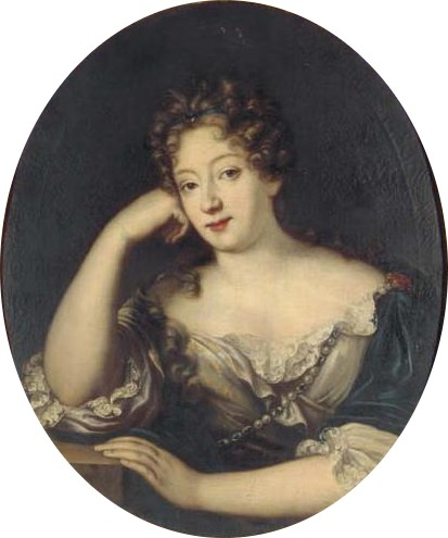 Portrait of Marie Jeanne of Savoy (1644-1724)